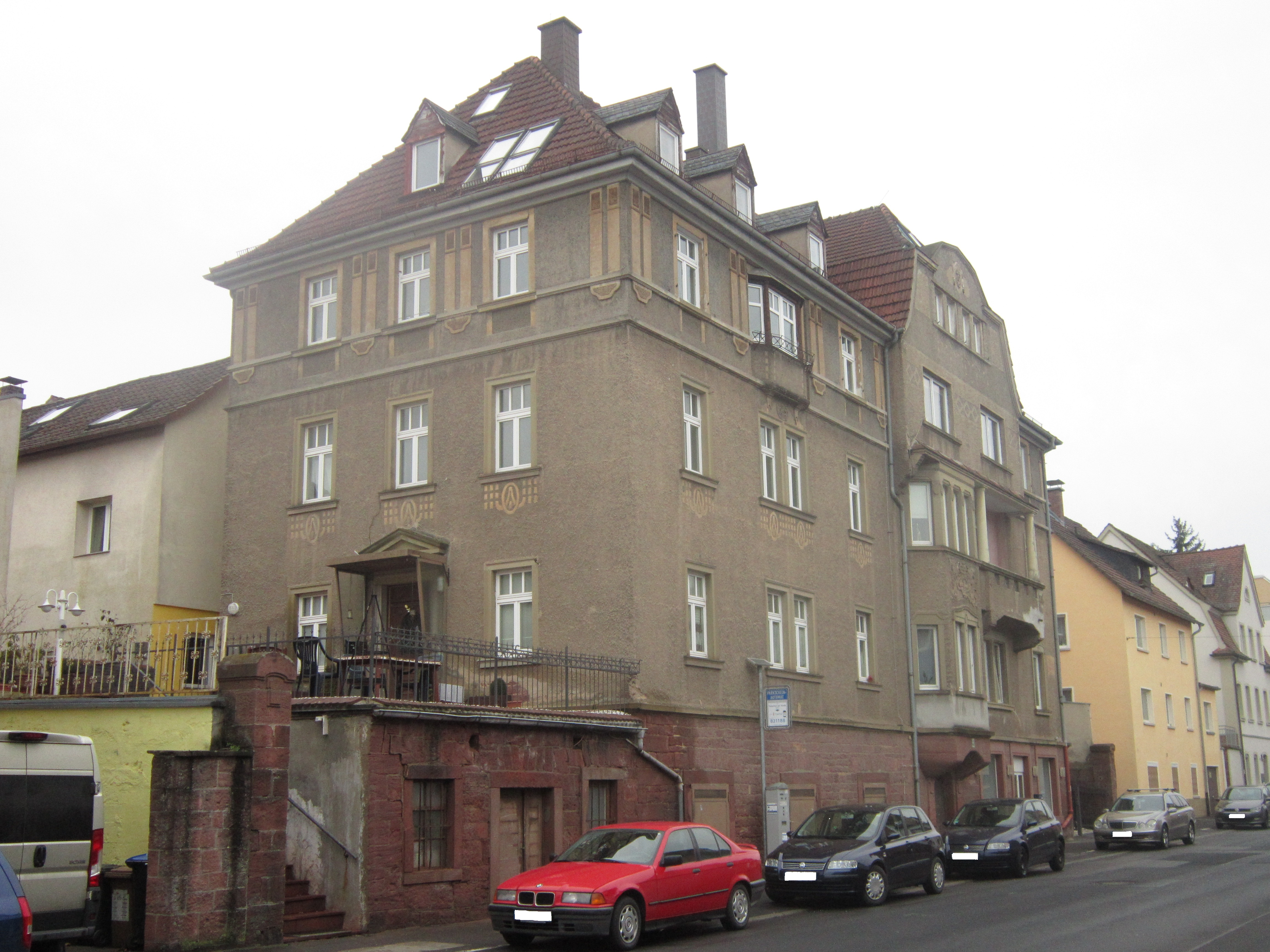 Building in the German spa town of Bad Kissingen in Lower Franconia (Bavaria) (Address: Schönbornstraße 37).